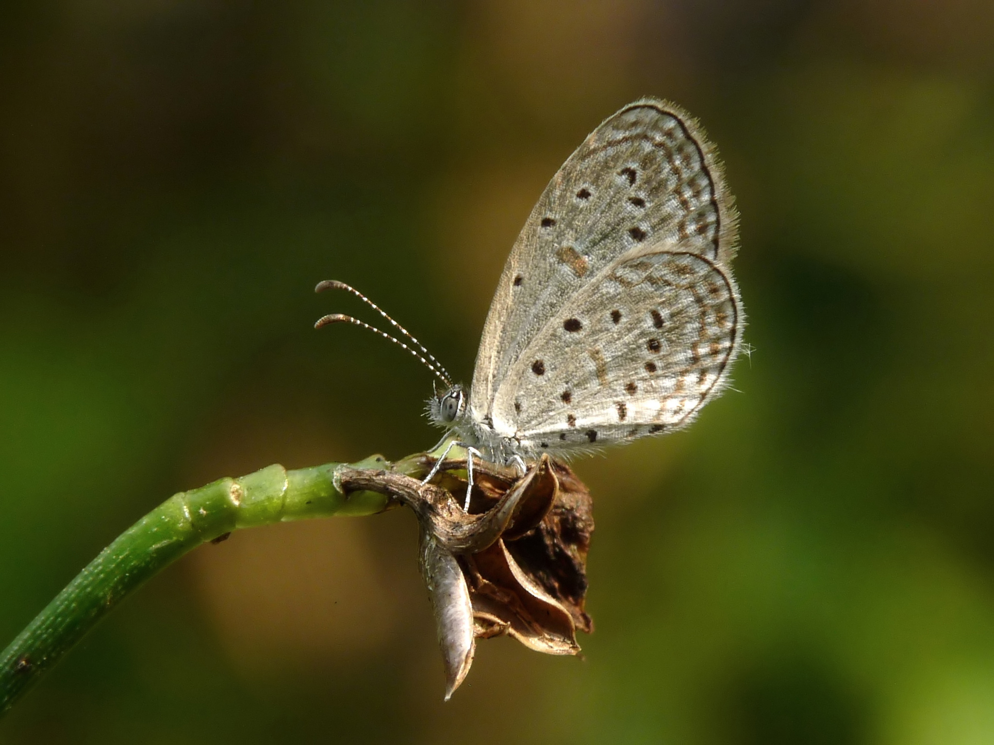 The Gaika Blue or Tiny Grass Blue (Zizula hylax) is a species of blue butterfly. Taken at Kadavoor, Kerala, India.